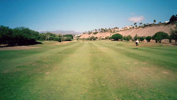 Fairway på Maspalomas, Gran Canaria.